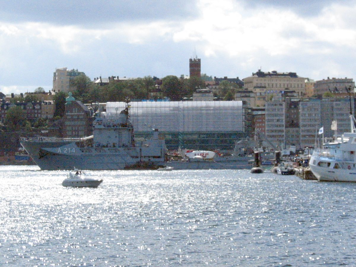 Submarine rescue vehicle URF on the deck of HMS Belos (A214)